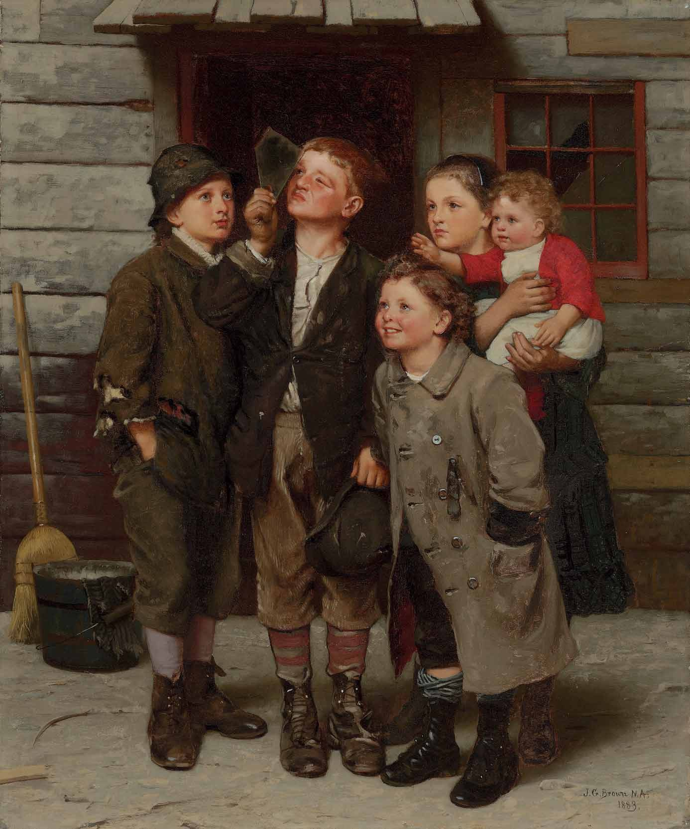 Depicts children in New York Citysharing a piece of smoked glass to follow the transit of Venus across the Sun in 1882.